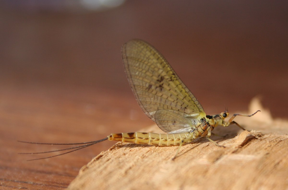 Ephemera danica photo by Jeffdelonge Vellefrey et Vellefrange Mai 2006